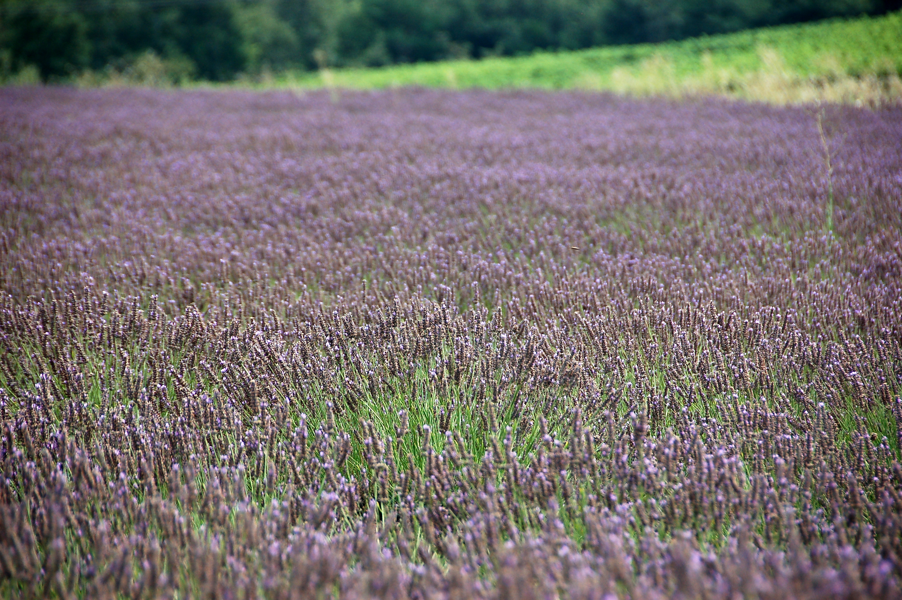 Lavender Field, Vaucluse, France, near Valreas